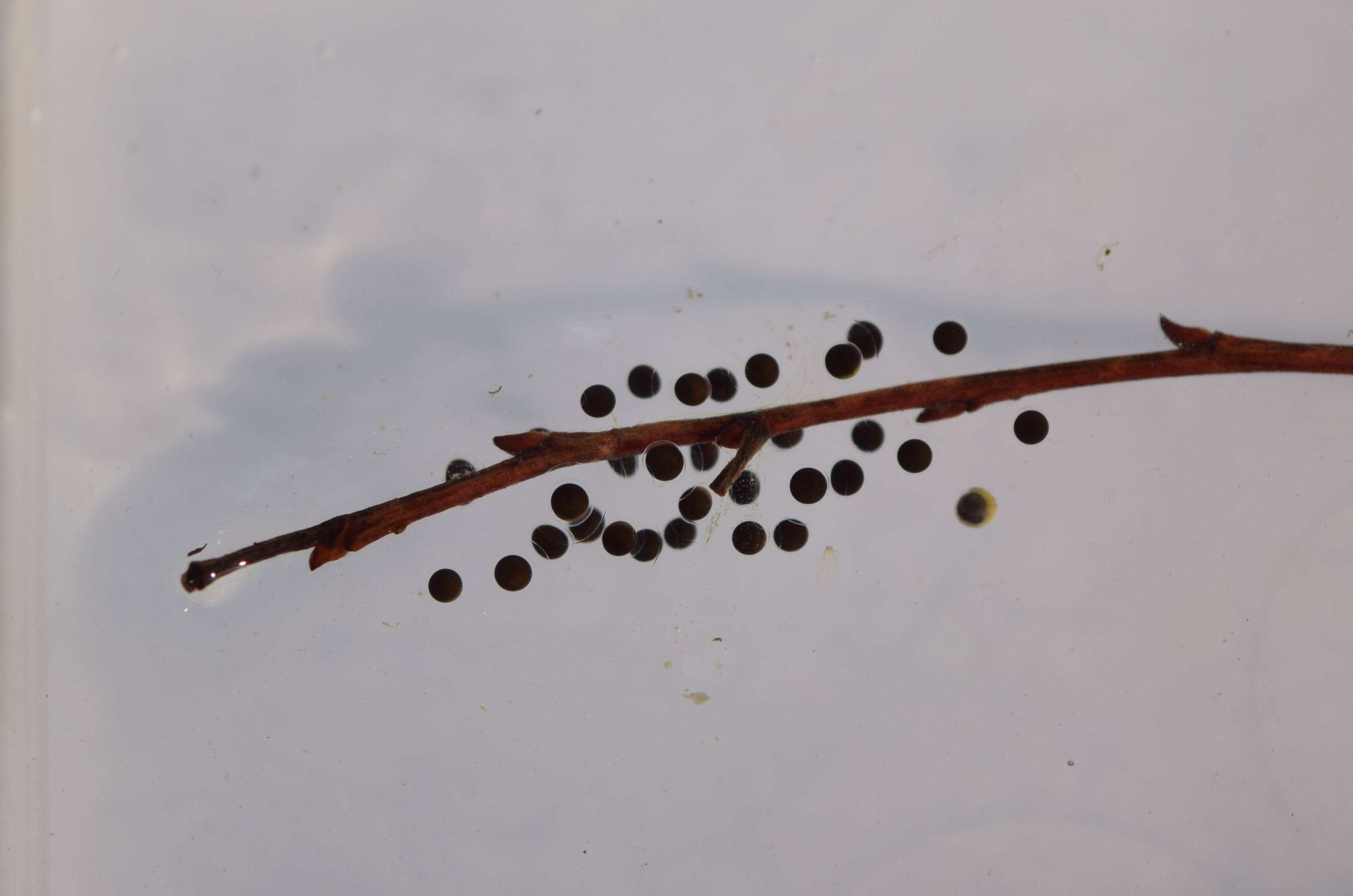 An Ambystoma talpoideum (mole salamander) egg mass attached to a tree branch at the University of Mississippi Field Station